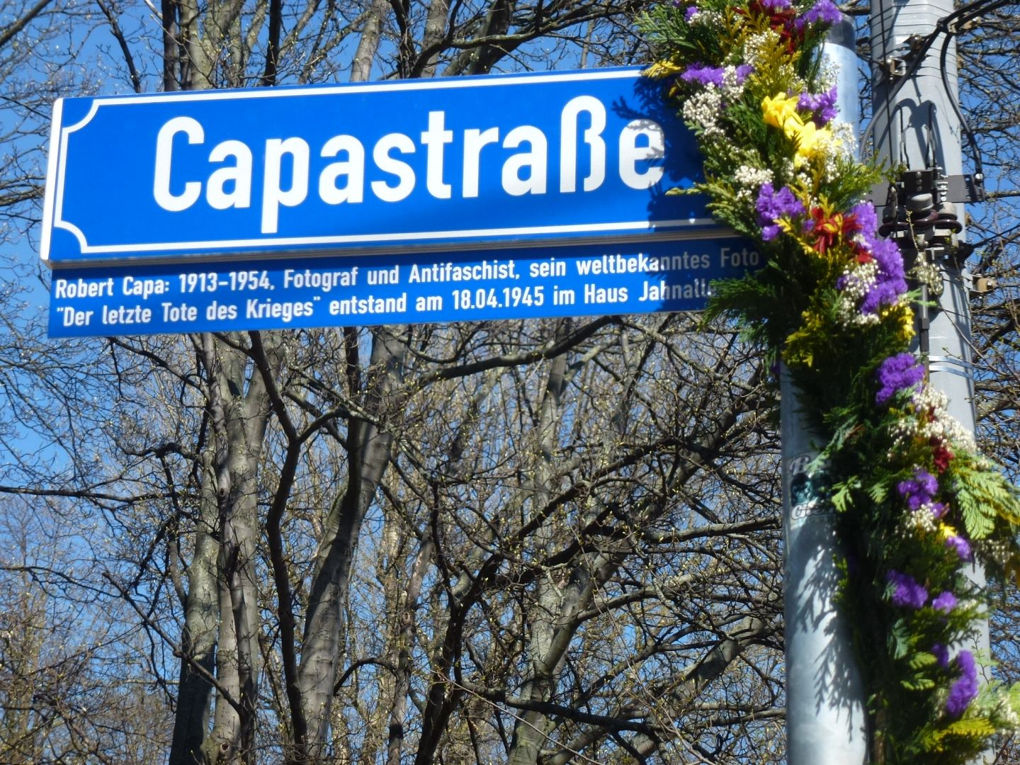 Street signs of Capastraße in Leipzig, named at April 17th 2016 after Robert Capa